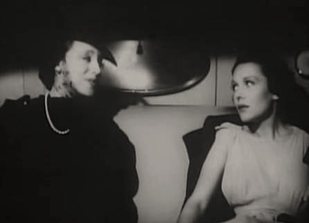 Helen Freeman & Louise Campbell in Bulldog Drummond Comes Back - cropped screenshot